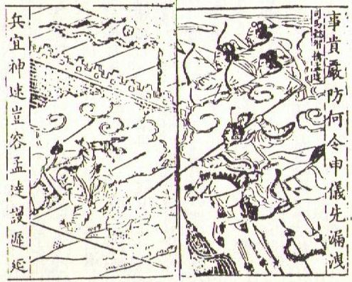 Meng Da is slain by the army of Sima Yi in the Xincheng Rebellion.